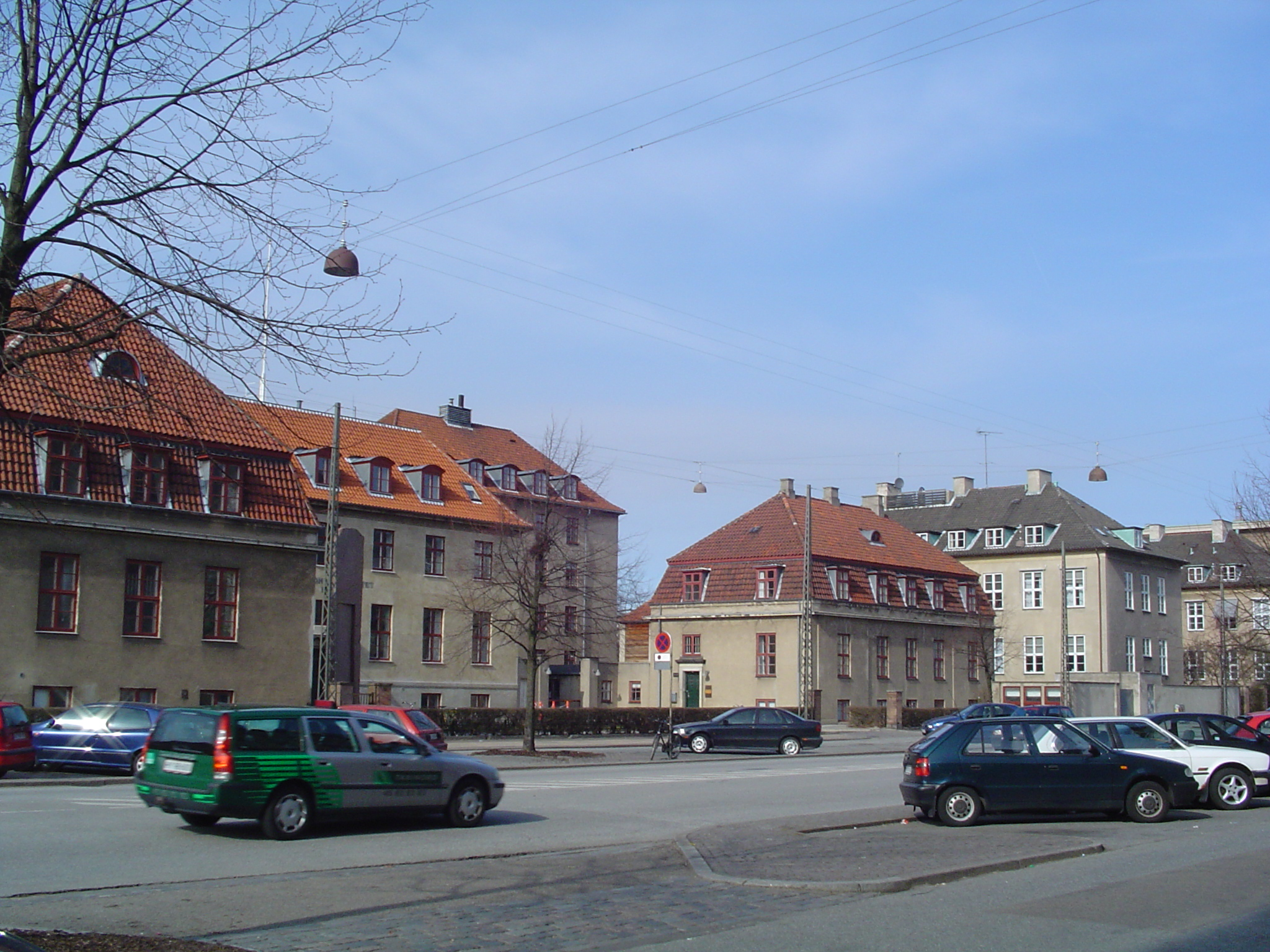 The Niels Bohr Institute at University of Copenhagen. Taken by me on 26/3-2005.